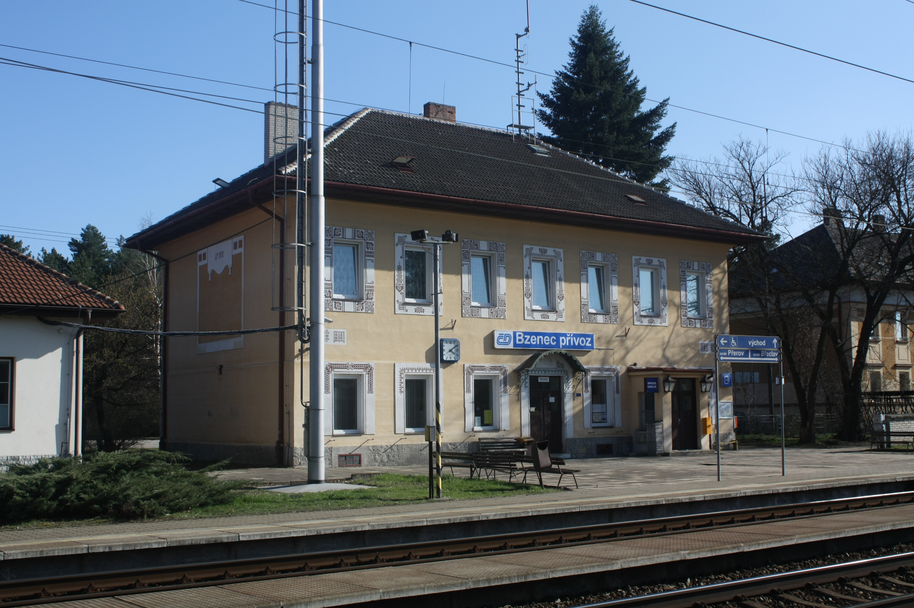 Bzenec-Přívoz (Hodonín district, Czech Republic) - train station